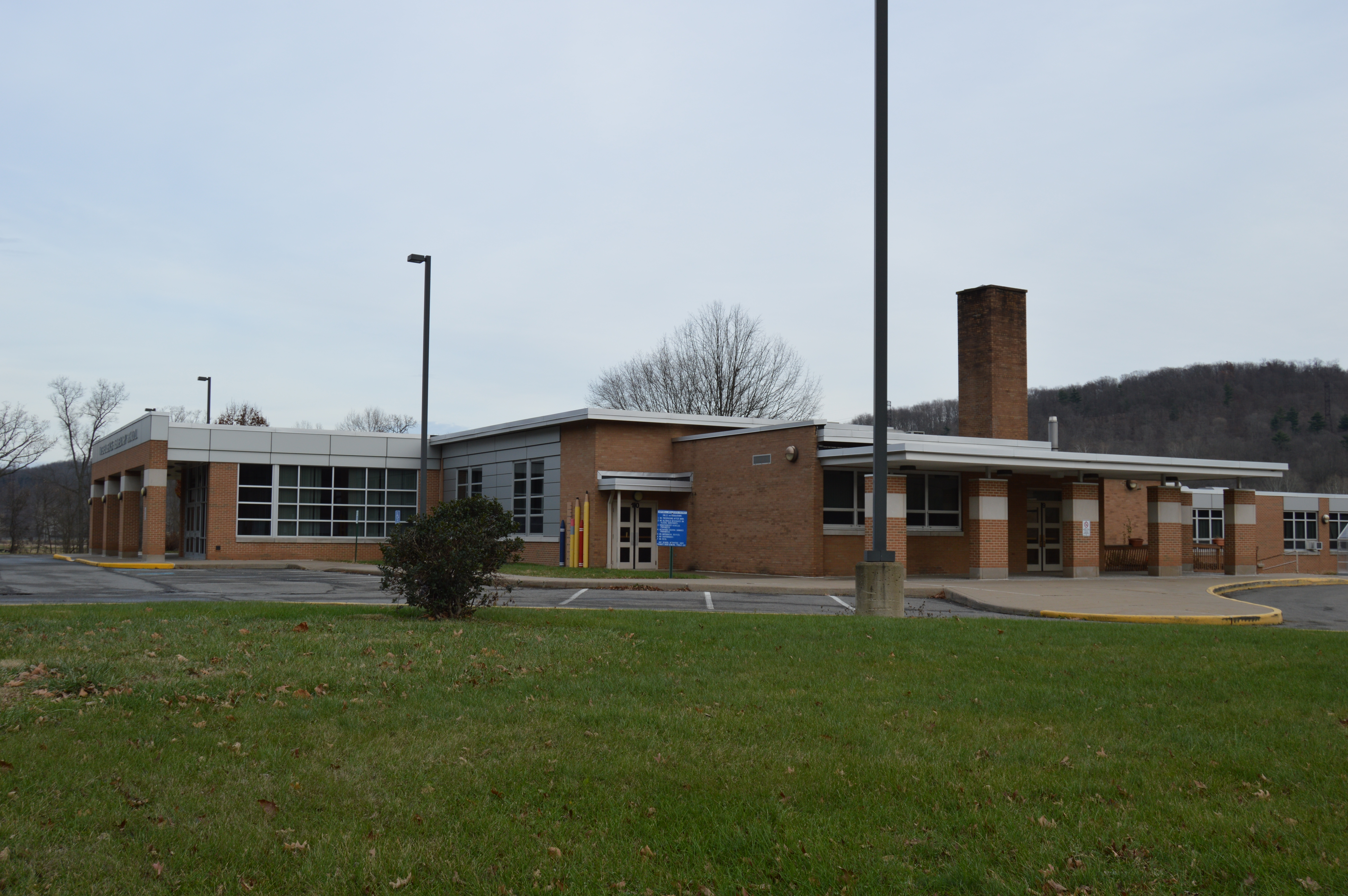 Western side and front of the Independence Elementary School, located along Pennsylvania Route 151 on School Road in Independence Township, Beaver County, Pennsylvania, United States.